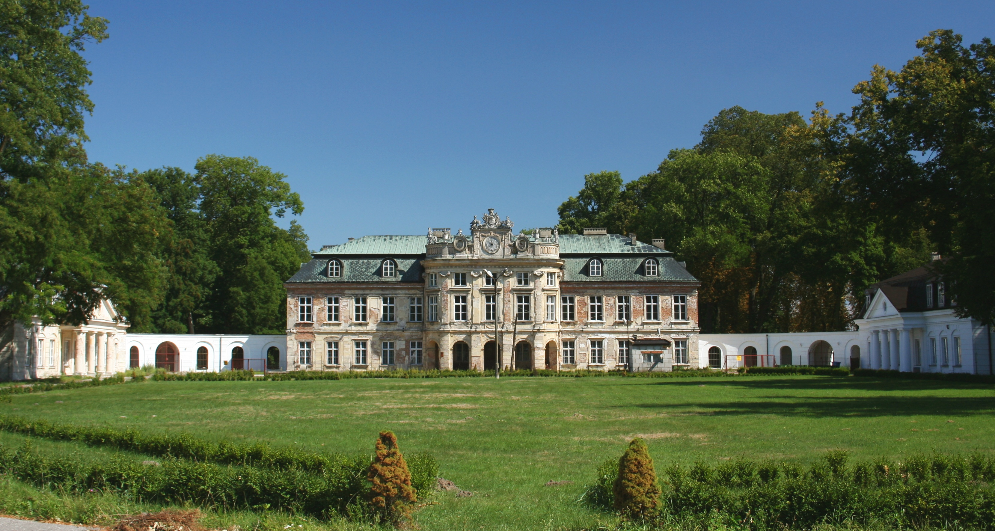 The park near Dembińscy's Palace in Szczekociny, Poland